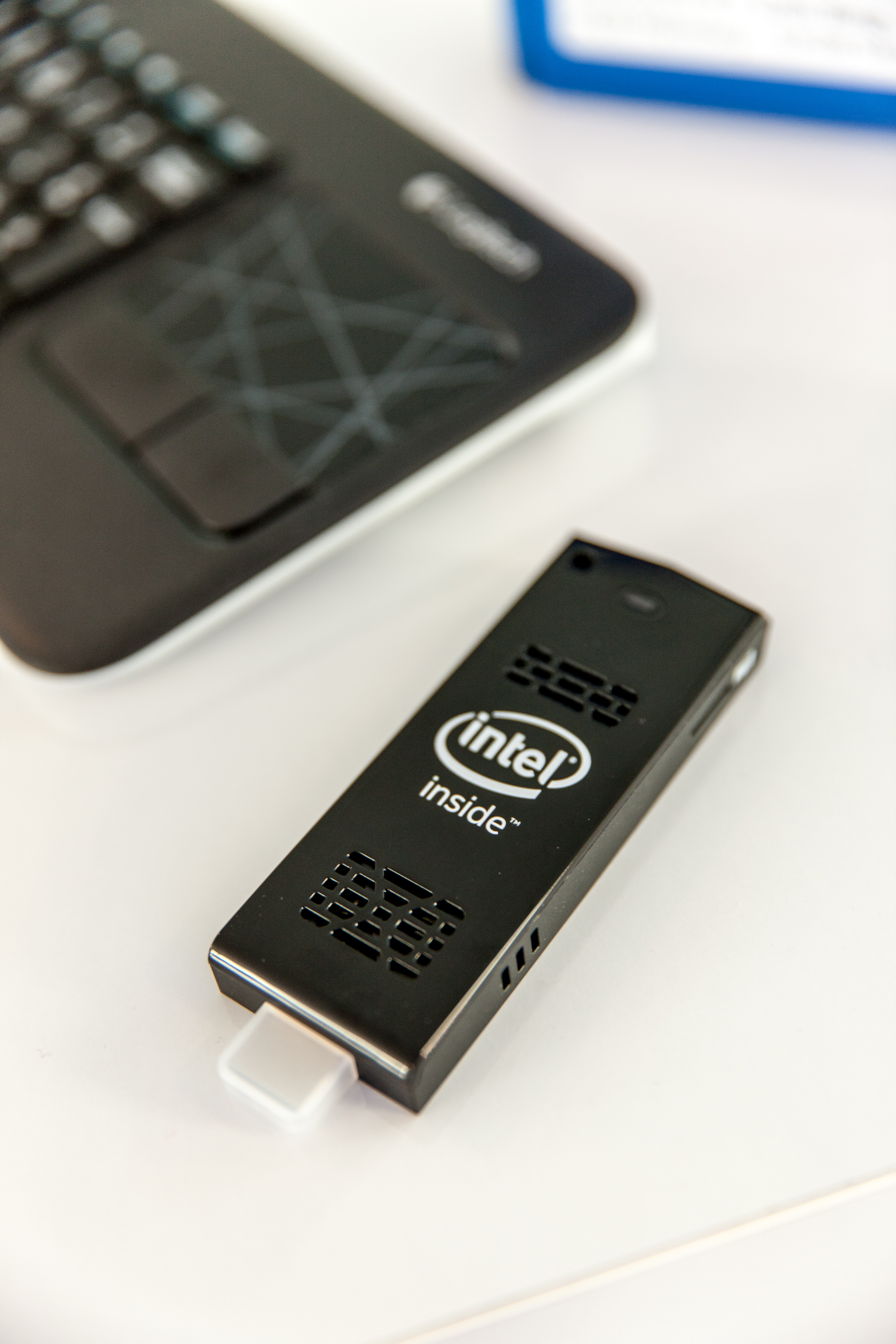 An image of the Intel Compute Stick next to a keyboard.